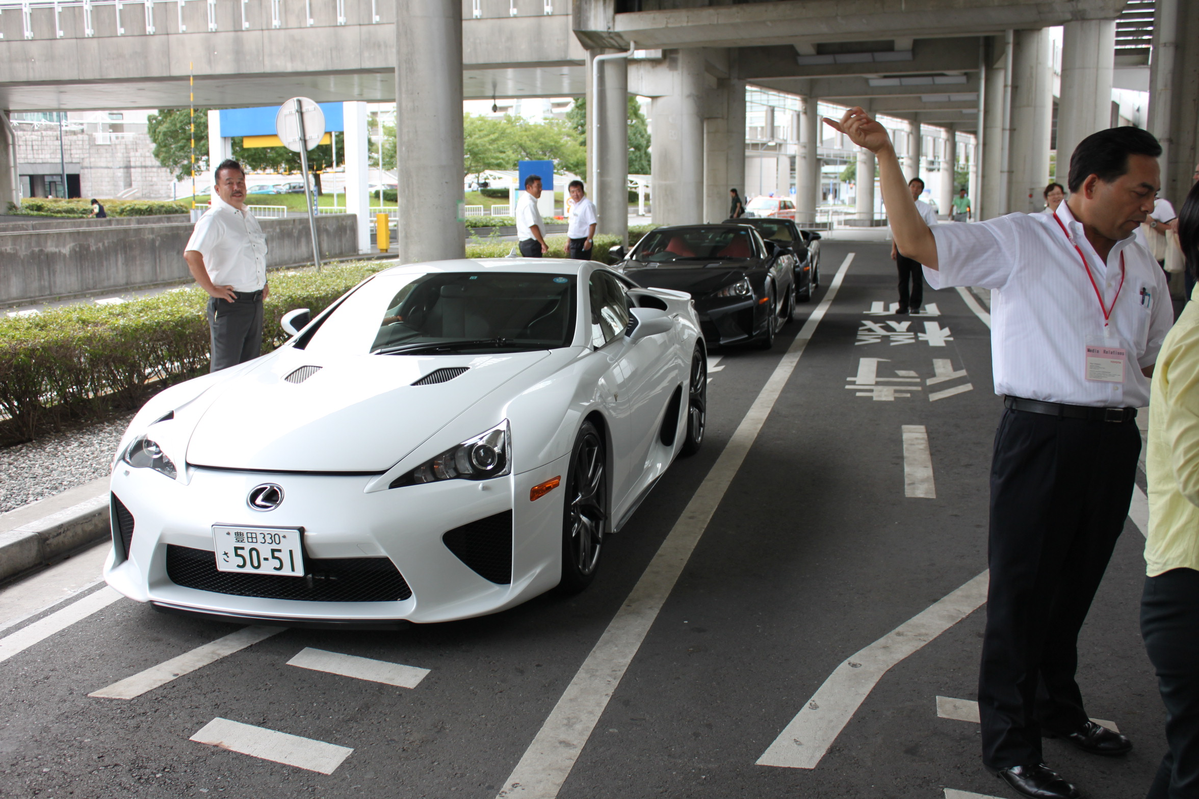 Production LFAs, lined up in Yokohama. By Bertel Schmitt